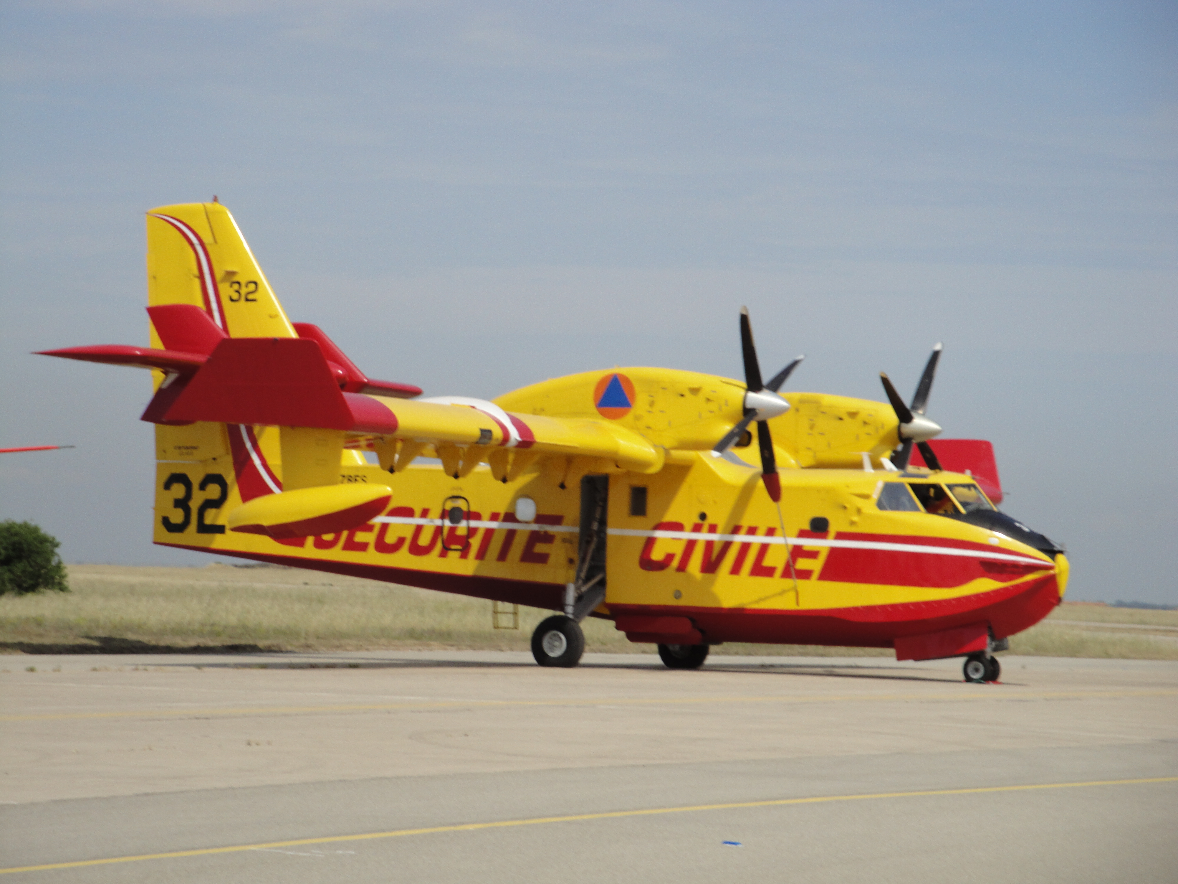 A Bombardier CL-415 of the french civil defense at the air meeting of Istres (France) in 2010.